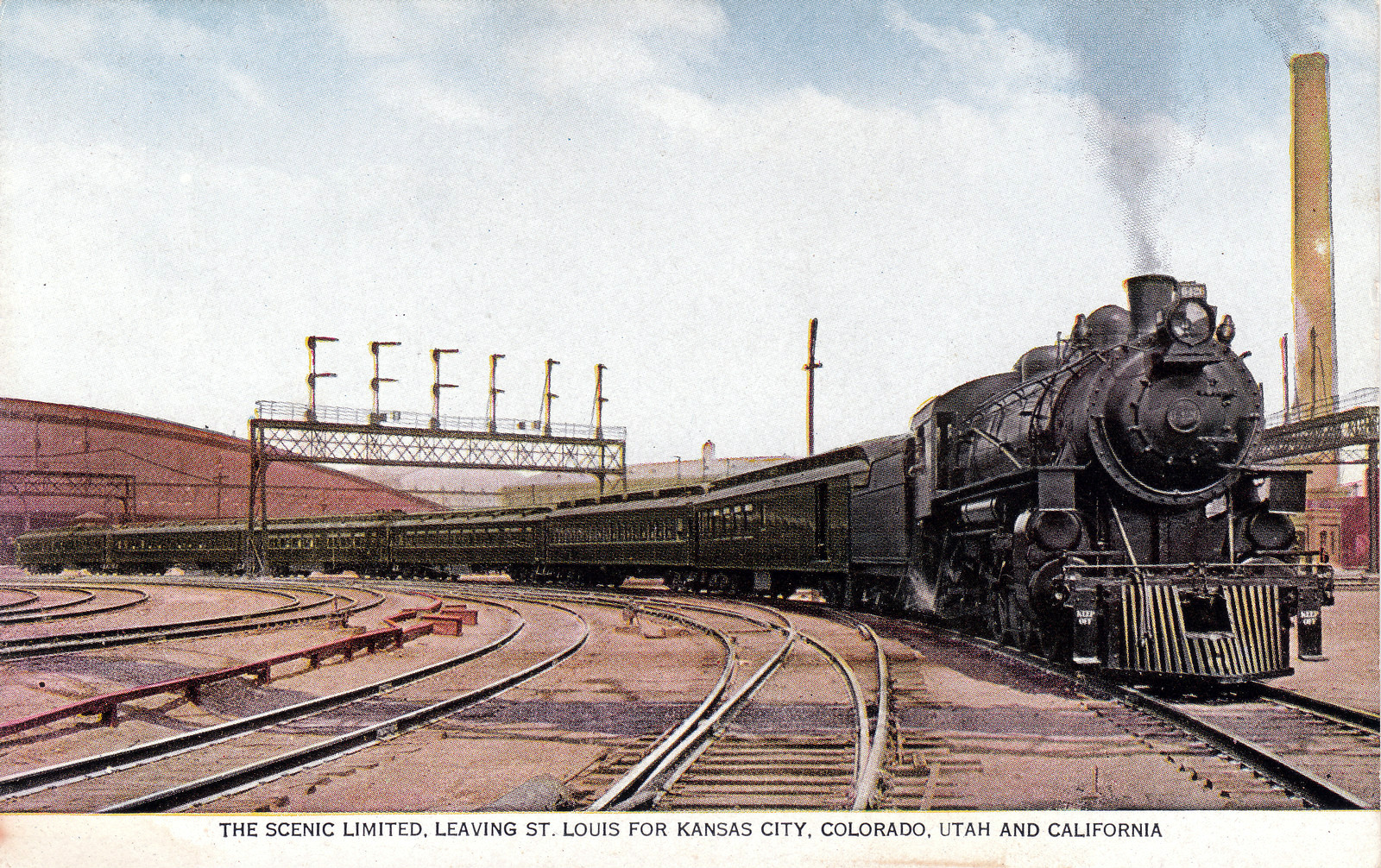 Postcard photo of the Missouri Pacific Scenic Limited leaving St. Louis. The train traveled between St. Louis and San Francisco. It was routed over the Denver and Rio Grande and Western Pacific Railroads, as it went through the Royal Gorge and Feather River Canyon.